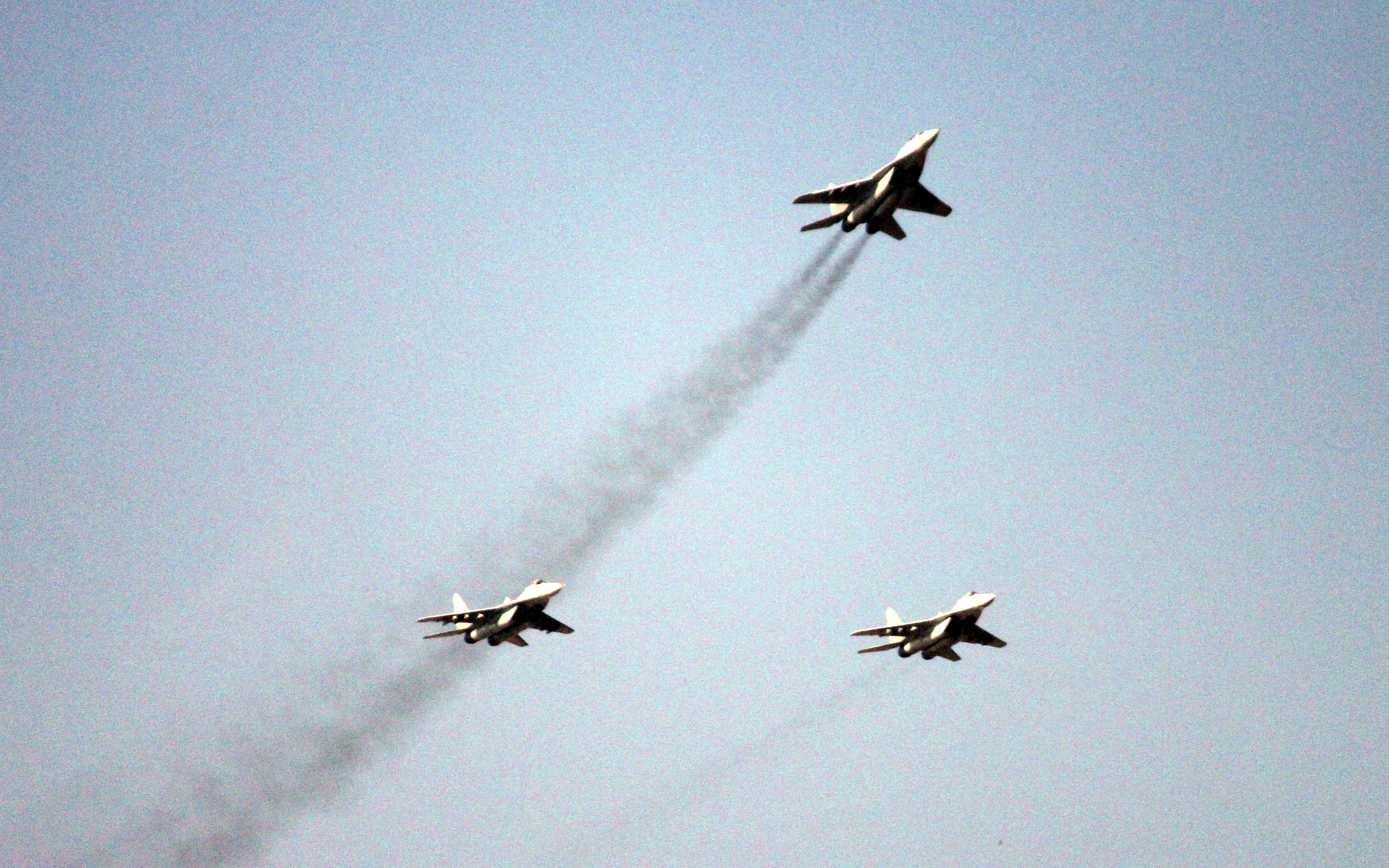 Three Serbian Air Force MiG-29 fighters from 101st fighter squadron flying over Batajnica Air Base during the Belgrade liberation day celebration and "Sloboda 2017" military exercise.